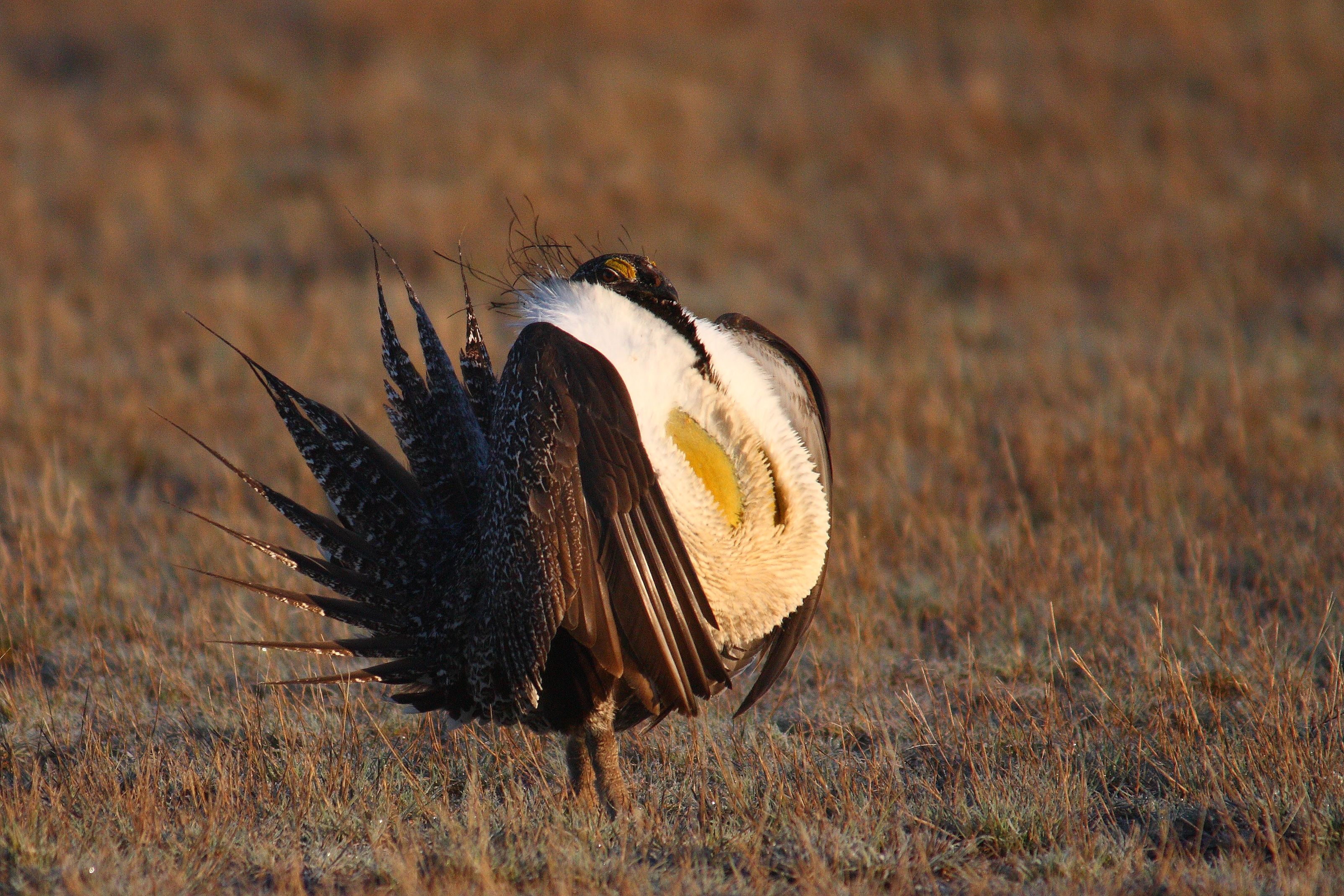 Male sage-grouse on a lek in Butte County, South Dakota. Credit: Steve Fairbairn / USFWS Photo Contest Entry #117